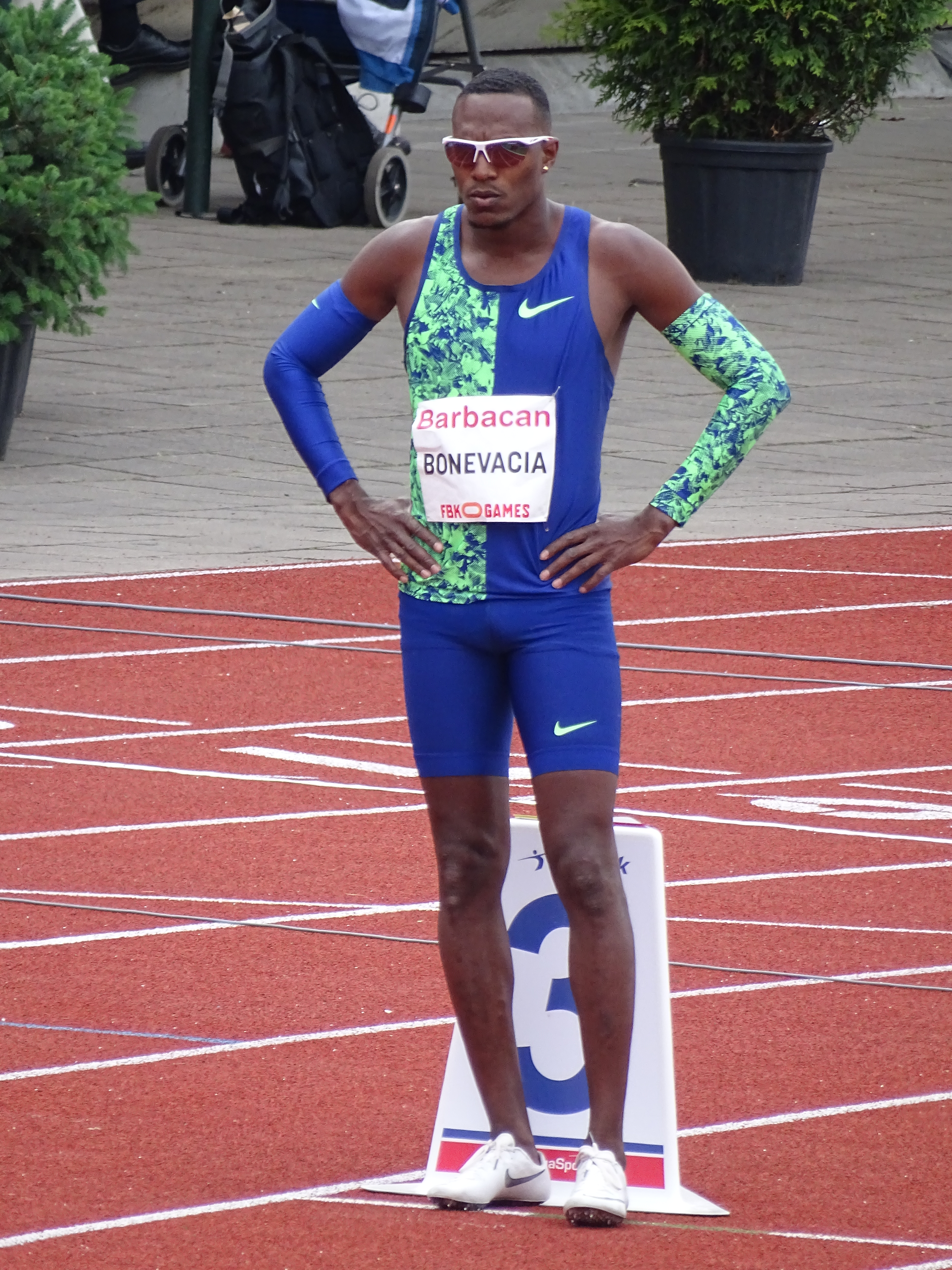 Liemarvin Bonevacia concentrates himself on the 400 metres start at the 2019 FBK Games.